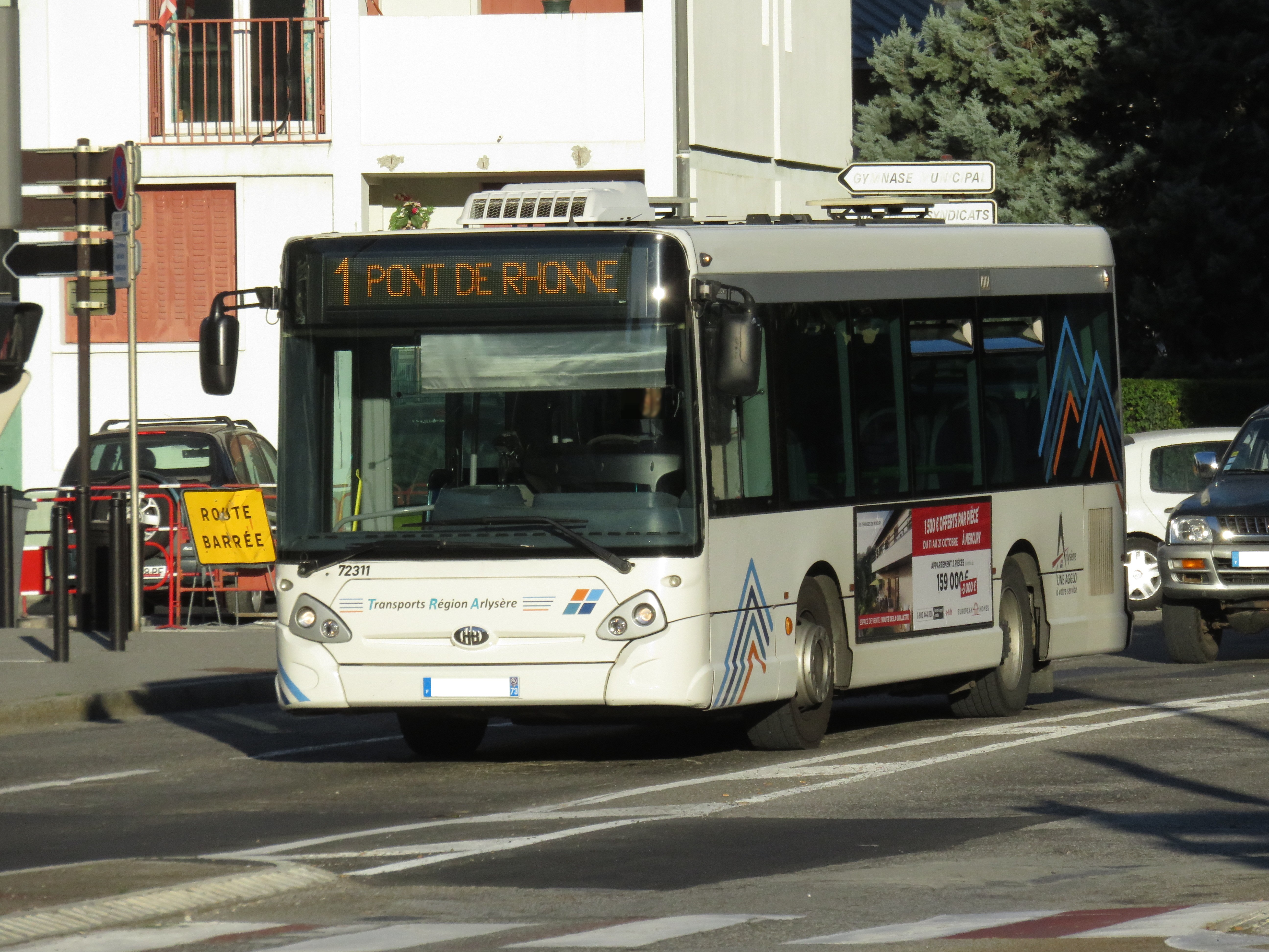 A Heuliez GX 127 (n°72311 of Transdev Albertville), carrying out the line 1 of the bus network Transports Région Arlysère — Hôpital - CHAM, Albertville↔Pont de Rhonne, Albertville — and running in the Avenue Jean Jaurès (Albertville, France) on September 28, 2018.